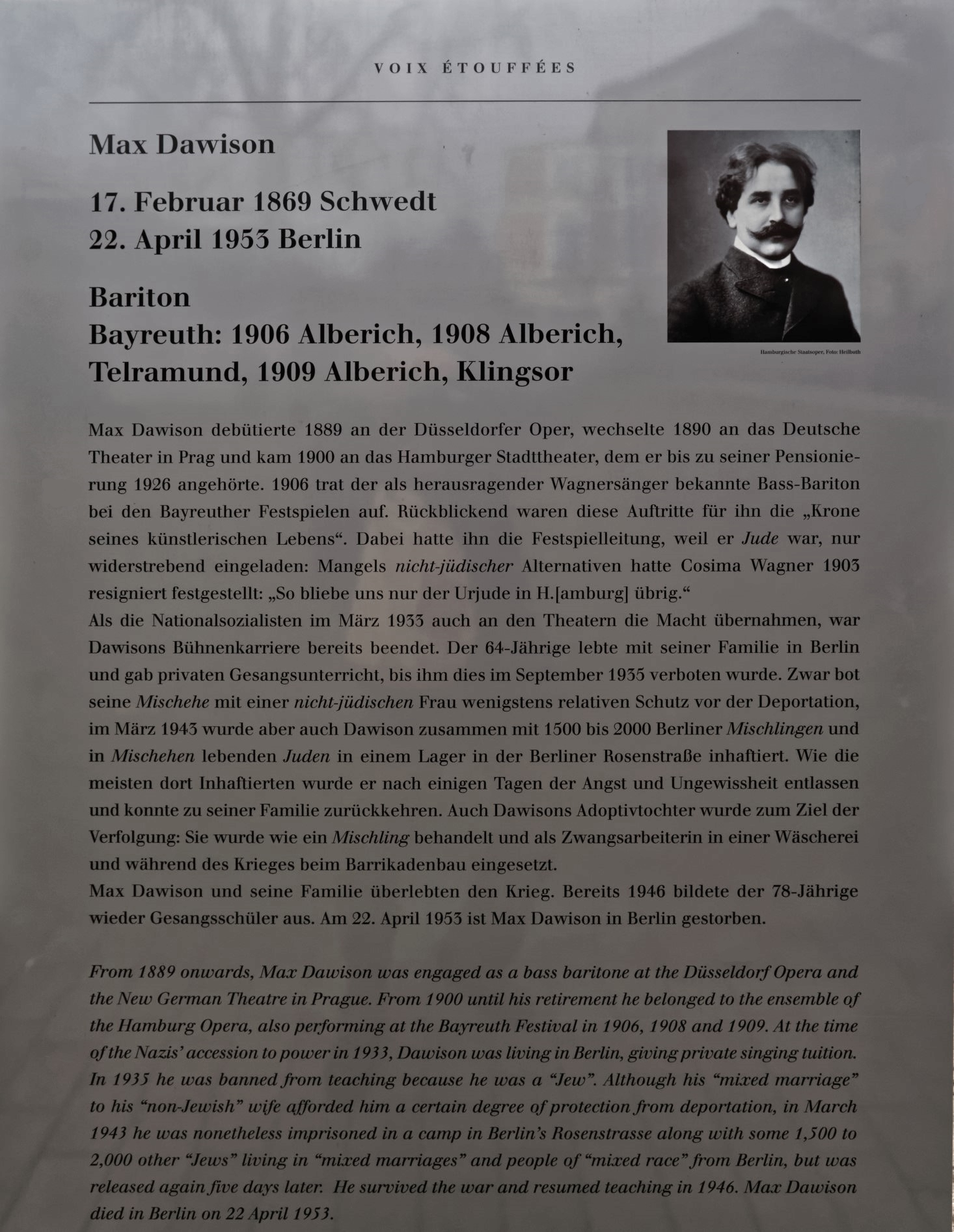 Verstummte Stimmen - Silenced Voices - Outdoor Exhibition since 2012 on the Green Hill in Bayreuth close to the Festspielhaus